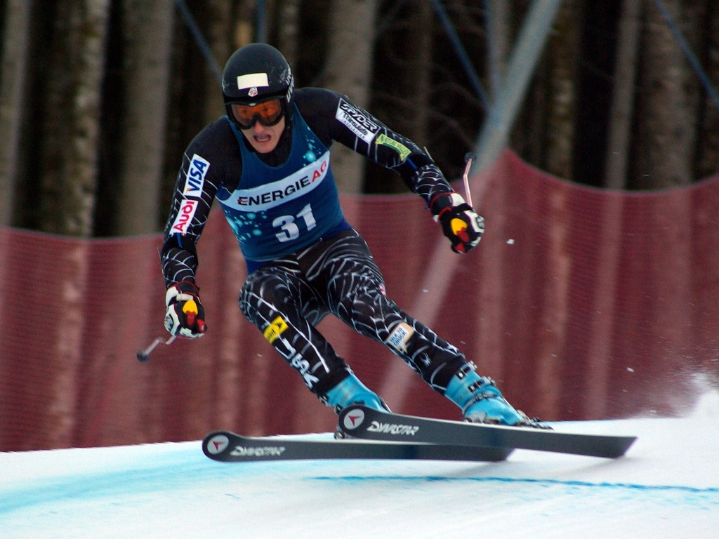 American alpine skier Tim Jitloff during the European Cup Giant Slalom in Hinterstoder, Austria on January 11, 2008.